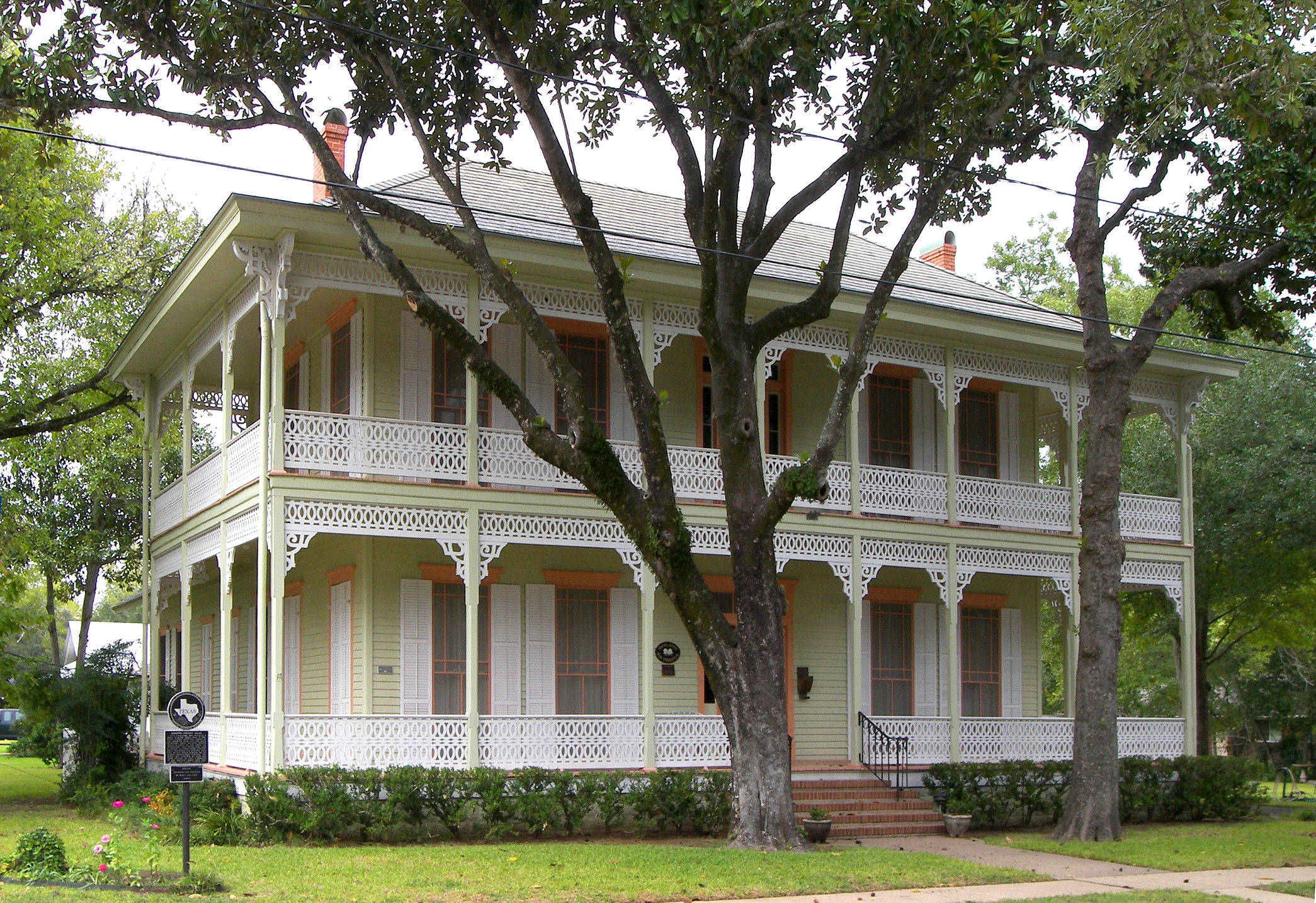 The Harrison-Hastedt House located in Columbus, Texas, United States. The house was designated a Recorded Texas Historic Landmark in 1993 and listed on the National Register of Historic Places on March 22, 2004.